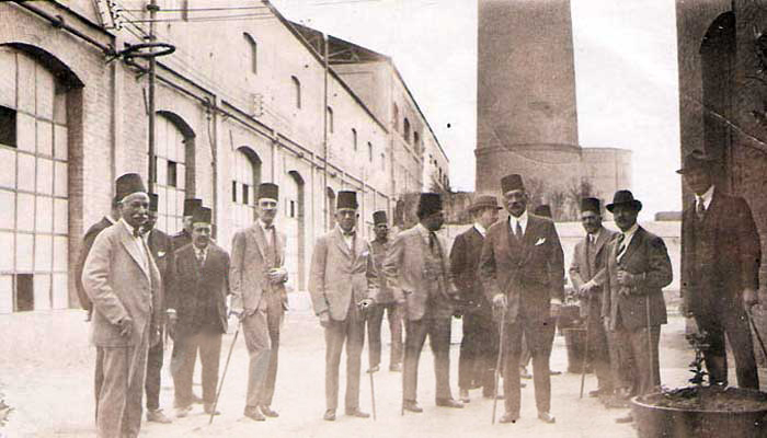 from left: Senator Ahmed Moustafa Bey with Talaat Harb Pasha, Sherif Sabri Pasha, Prime Minister Ismail Sidki Pasha, future prime pinister Mohammed Mahmoud Pasha, sugar company director Henri Naus Bey, former prime minister Adly Yeken Pasha, Ralph Victor Harari at Wadi Kom-Ombo Company